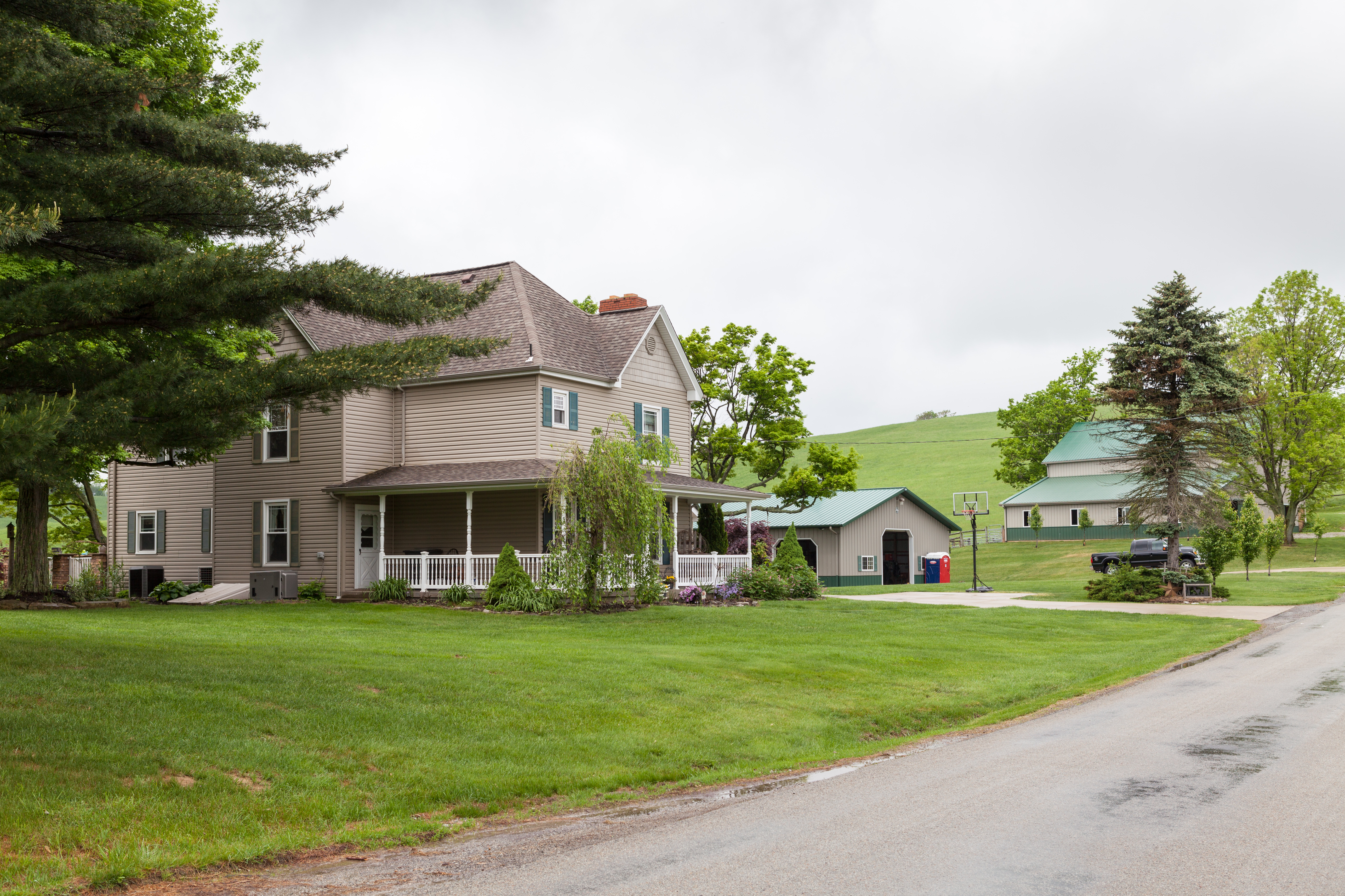 A house in Green Hills, Pennsylvania. The desire for a liquor license in a dry township resulted in a secession and the creation of a borough with a very small number of residents, living near a golf course.